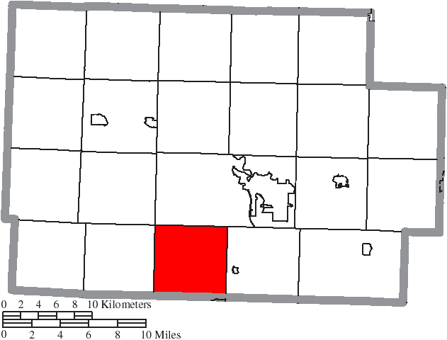 Map of the municipal and township boundaries of Coshocton County, Ohio, United States, as of the 2000 census, with the location of Virginia Township highlighted. Township borders are shown only in unincorporated areas in order to differentiate incorporated and unincorporated areas more clearly.